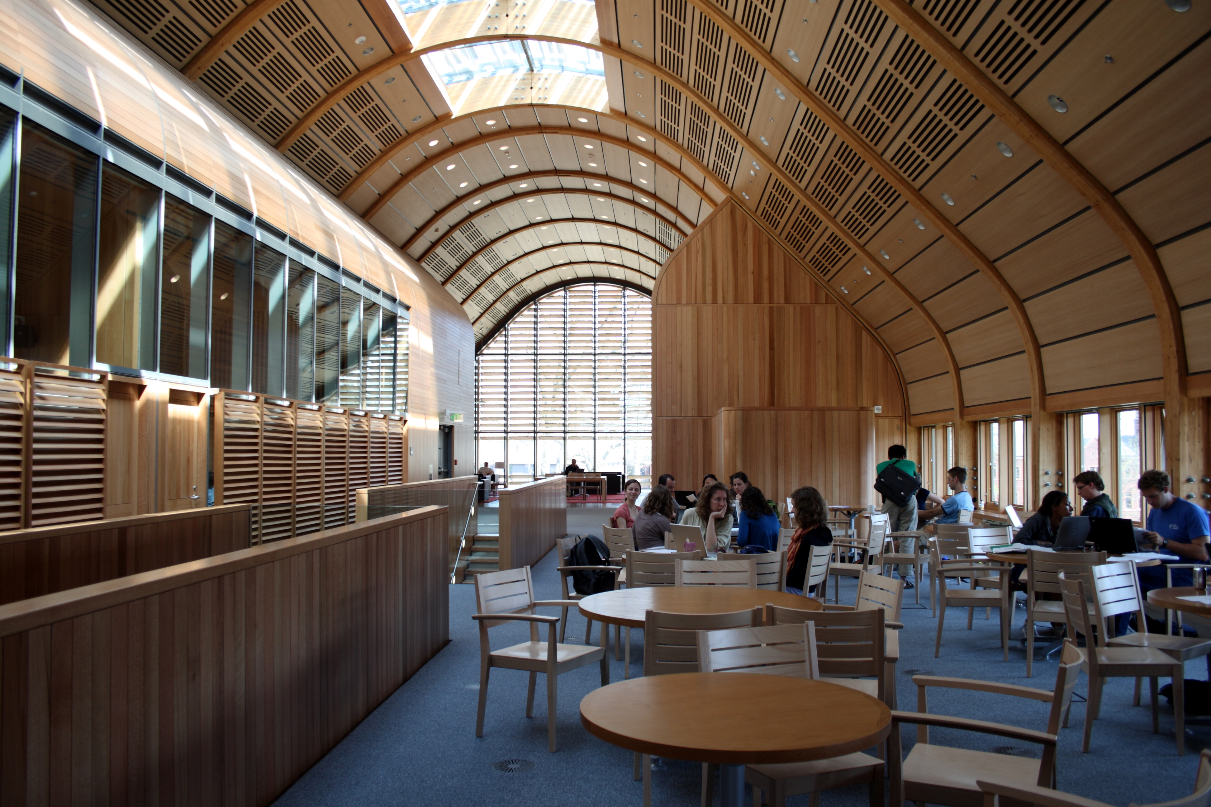 Kroon Hall, a green building that is part of the Yale School of Forestry & Environmental Studies - OpenStreetMap(Info)